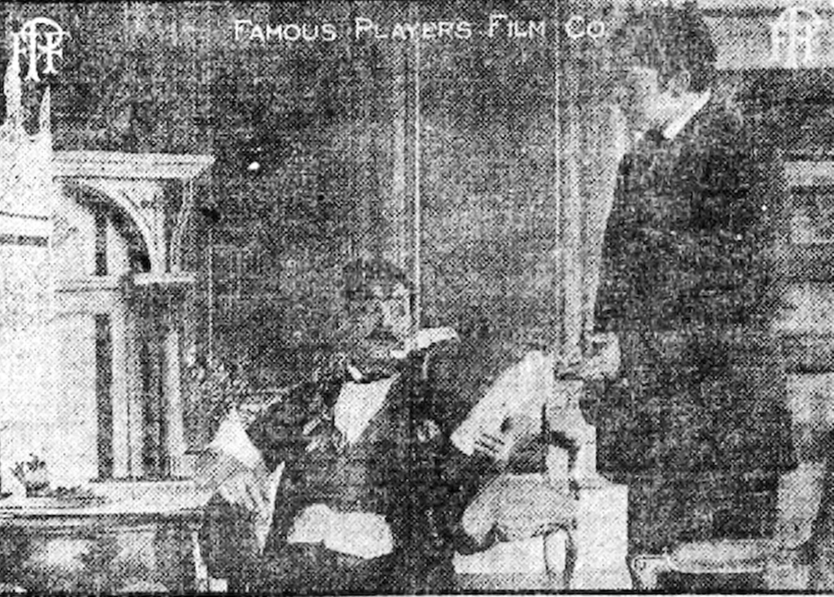 An American Citizen is a 1914 silent film comedy; noteworthy as the debut feature starring film for John Barrymore. This is a scene from a newspaper. Original caption: "John Barrymore appears as Beresford Cruger with the Famous Players in the Frohman production of An American Citizen closing tonight at the Rex."